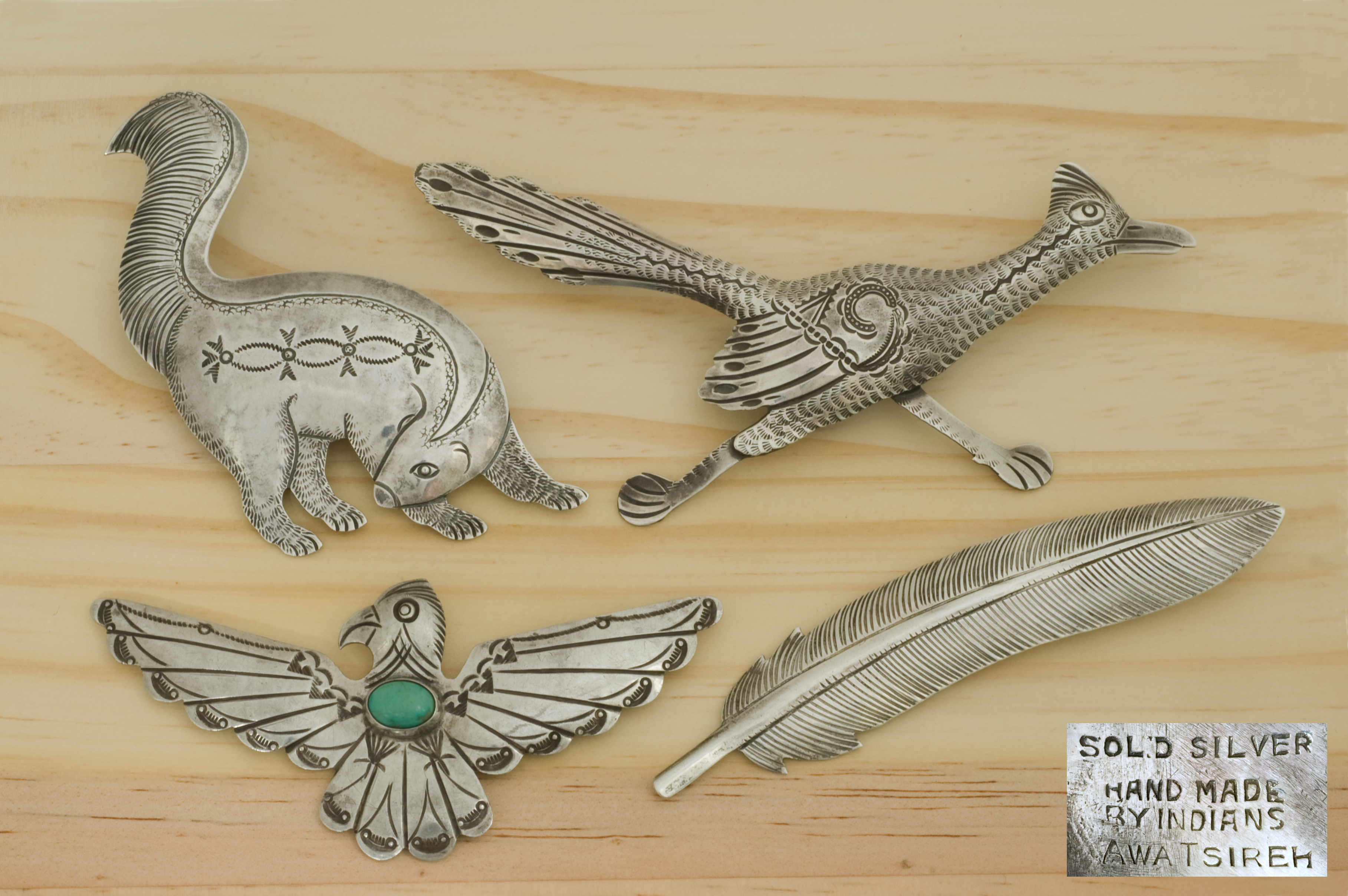 Four silver pins made by Awa Tsireh, San Ildefonso Pueblo, ca 1930s while he worked at garden of the Gods Trading Post.